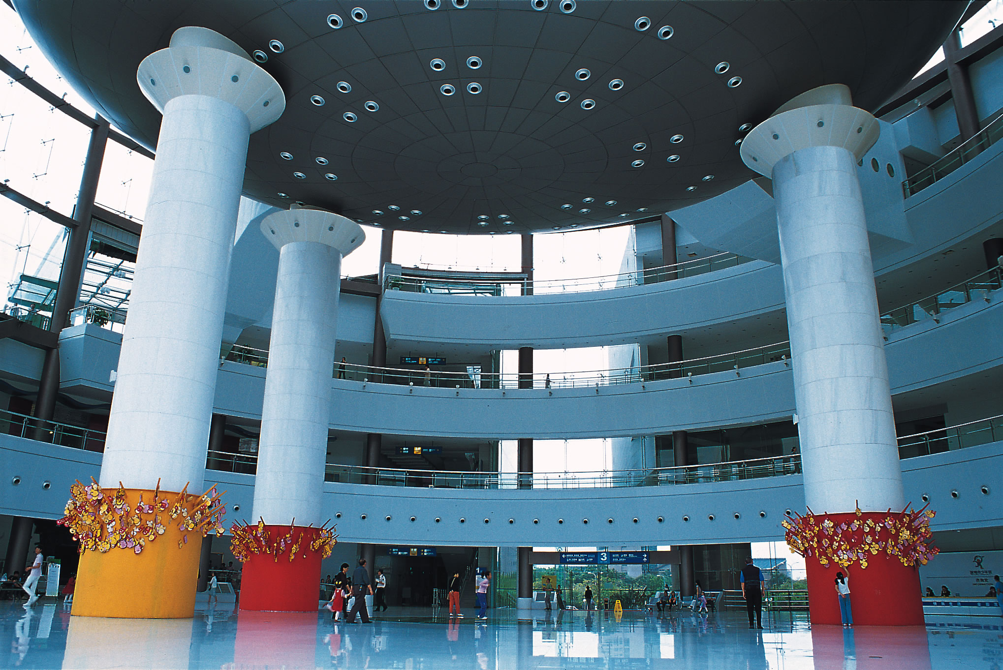 Crystal Hall of Shenzhen Children's Palace